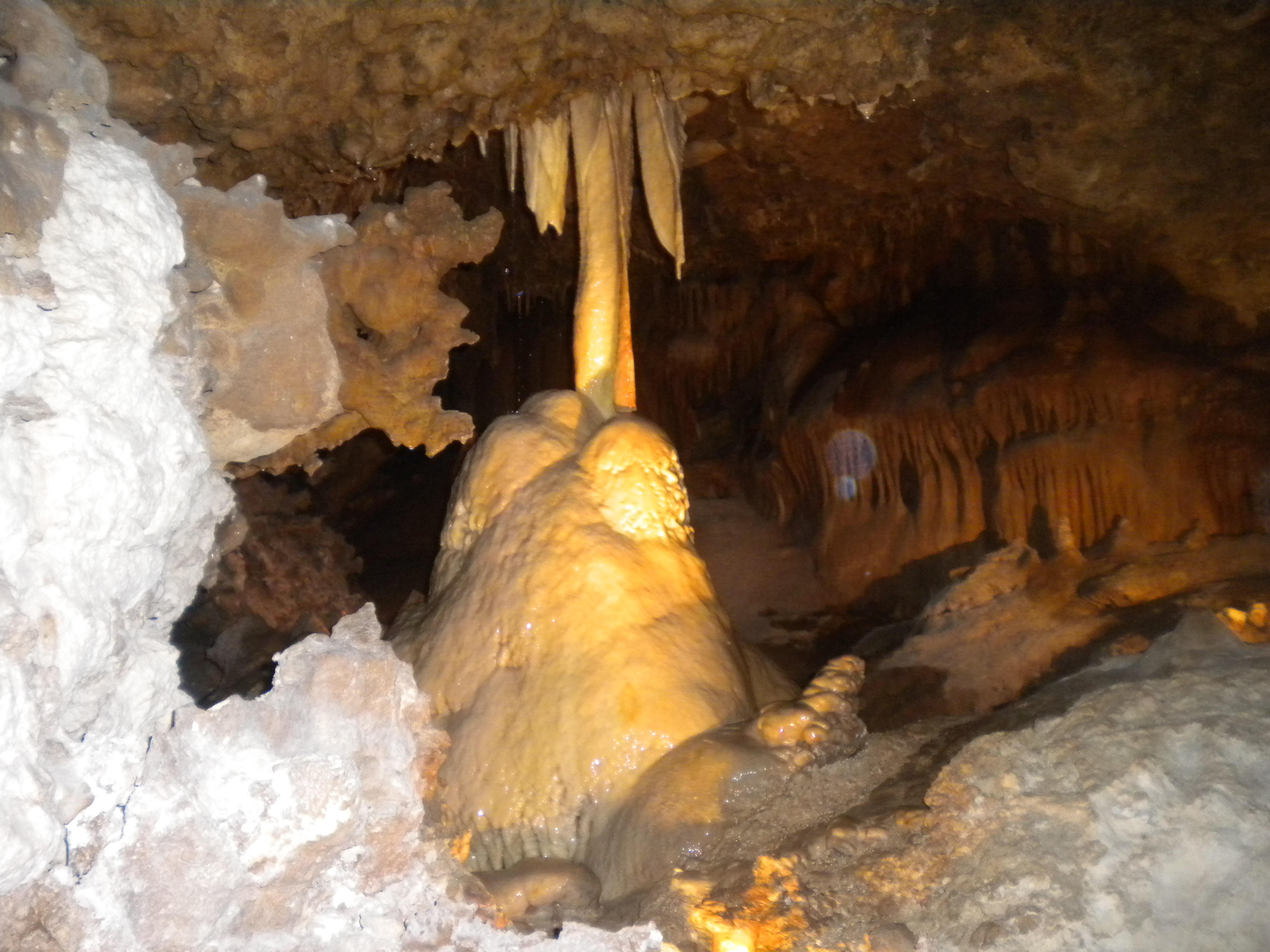 Limestone formations of Inner Space Cavern — in Georgetown, Texas Hill Country, Central Texas, United States.